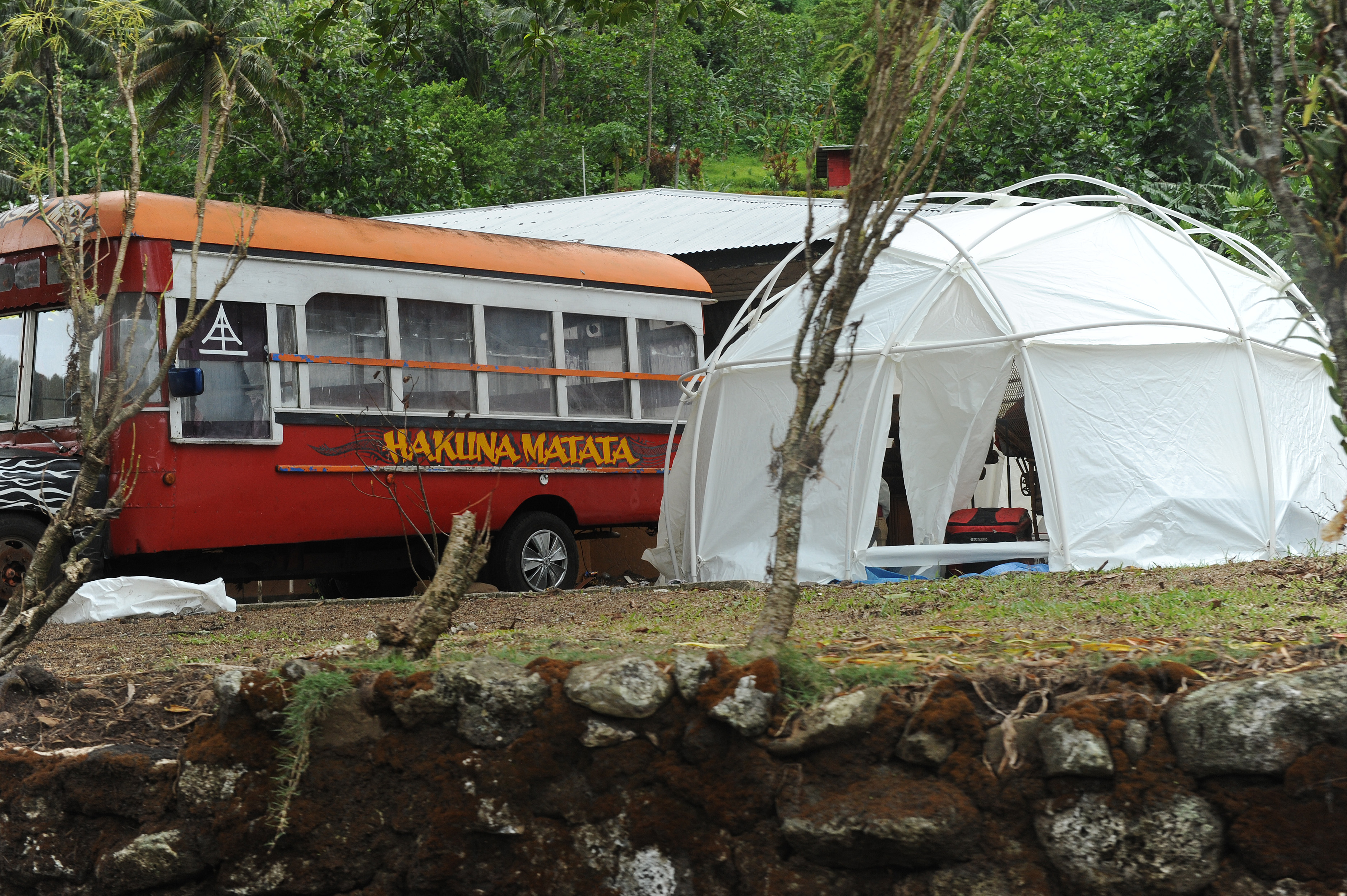 Pago Pago, AS, October 15, 2009 -- A family temporarily lives in a tent provided by the Federal Emergency Management Agency. The family owned bus appears to reflect their attitude, Hakuna Matata which in Swahili means no worries. David Gonzalez/FEMA